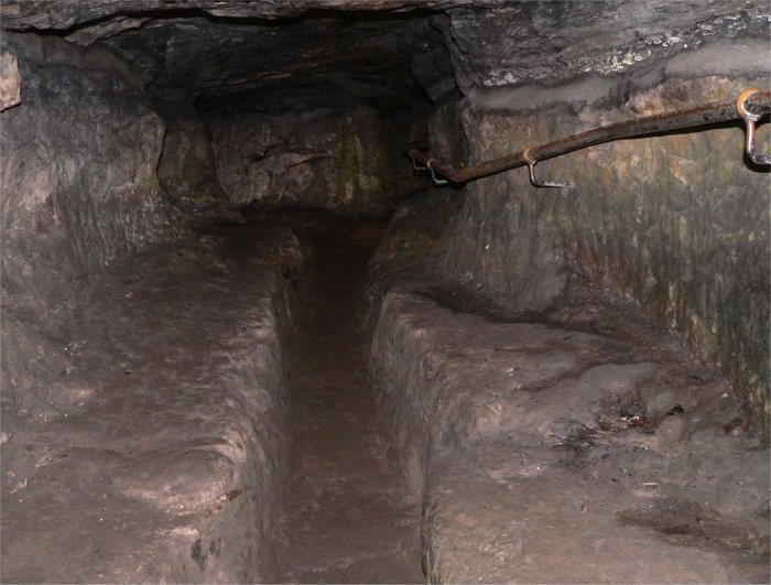 The countermine of the defenders of St Andrews Castle (Scotland) during the siege of 1546-1547